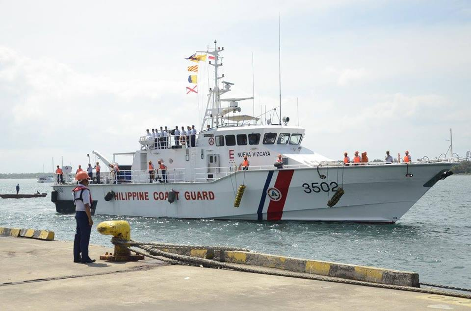 BRP Nueva Vizacaya as it arrives for MARPOLEX 2017